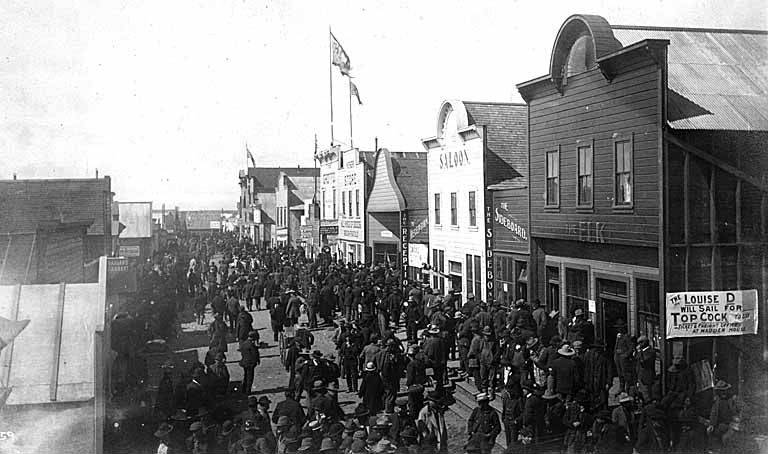 Gold was discovered on the Nome beaches in the Summer of 1899. By Spring of 1900, thousands had arrived for the gold rush. Signs advertise The Elk, The Sideboard, The Reception, The Grotto, and the Oakland Restaurant. Also, a sign advertises that the LOUISE D will sail for Top Cock .Warner Filed in Alaska series. Subjects (LCTGM): Streets--Alaska--Nome; Bars--Alaska--Nome; Restaurants--Alaska--Nome; Stores & shops--Alaska--Nome; Business districts--Alaska--Nome Subjects (LCSH): Nome (Alaska)